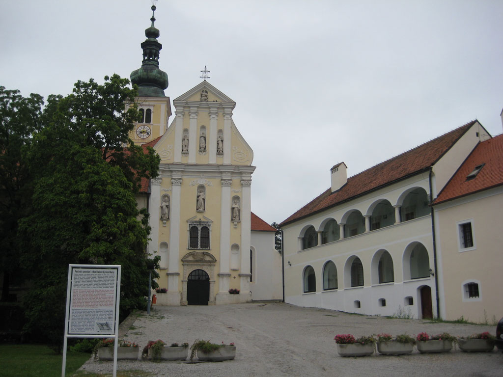 The Paulist monastery in Lepoglava